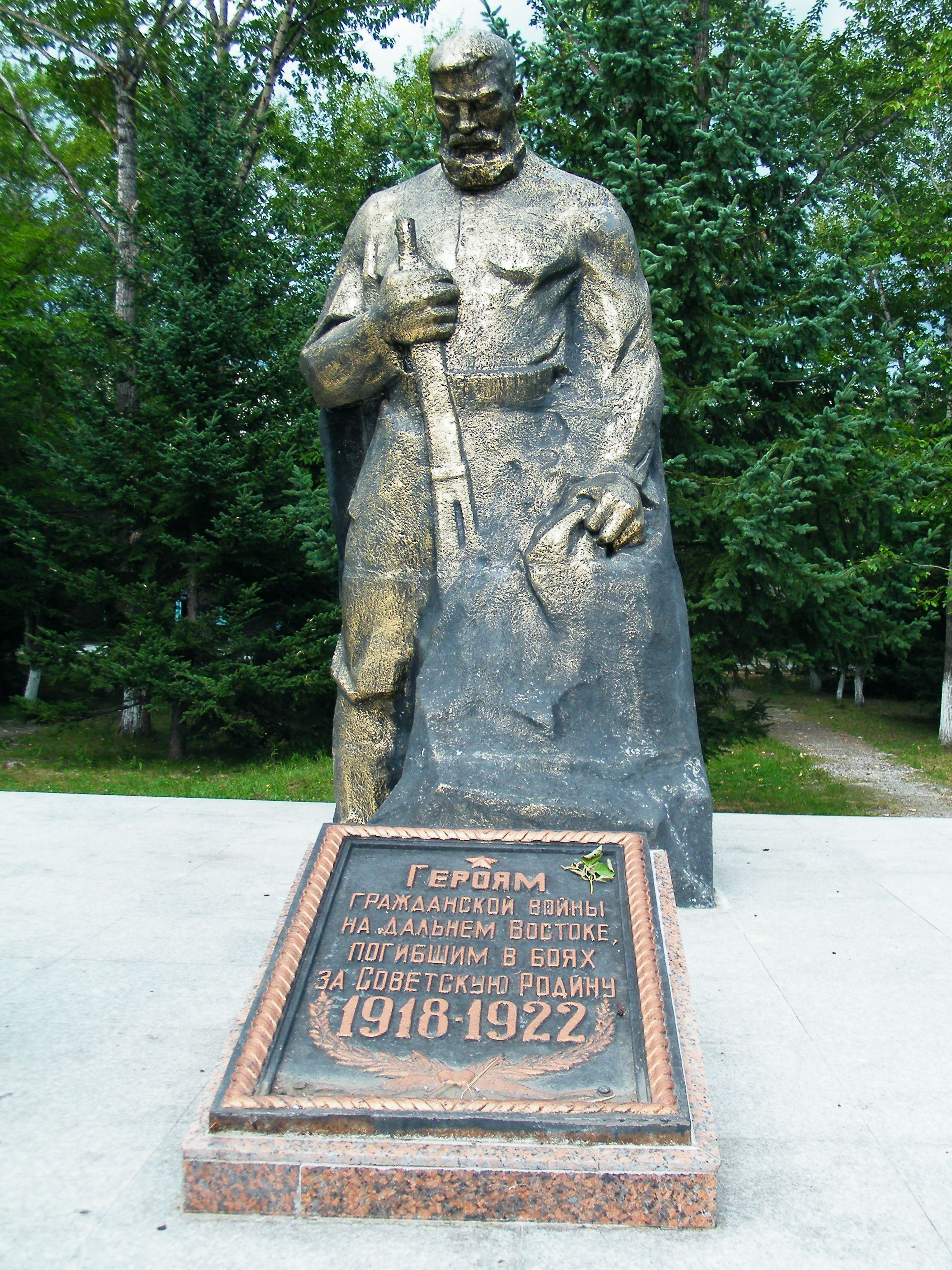 Chuguevka